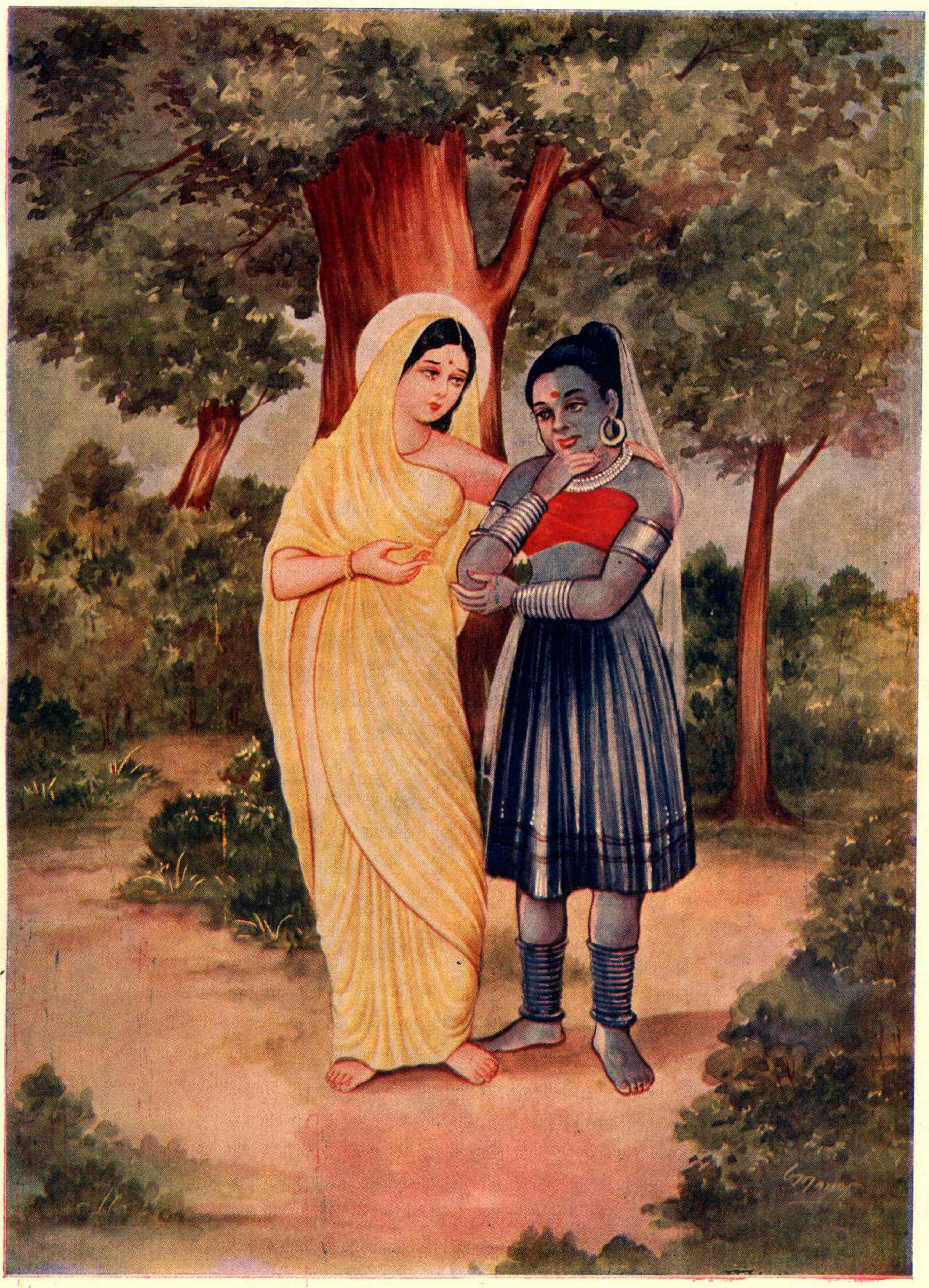 Valmiki Ramayan I Gita Press Gorakhpur by MahaMuni Usage Topics Sanskrit, "महामुनि का संग्रह", "Pratiek-Lucknow" Collection opensource Language Sanskrit Indological Books , 'Valmiki Ramayan I - Gita Press Gorakhpur.pdf' Identifier ValmikiRamayanIGitaPressGorakhpur Identifier-ark ark:/13960/t3908c40s Ocr language not currently OCRable Ppi 600 Scanner Internet Archive HTML5 Uploader 1.6.3